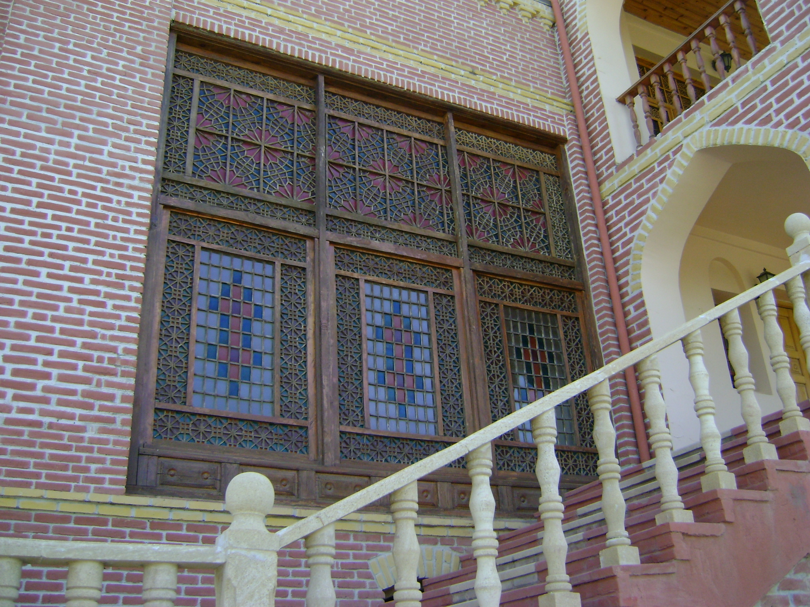 Nakhchivan_khan_palace